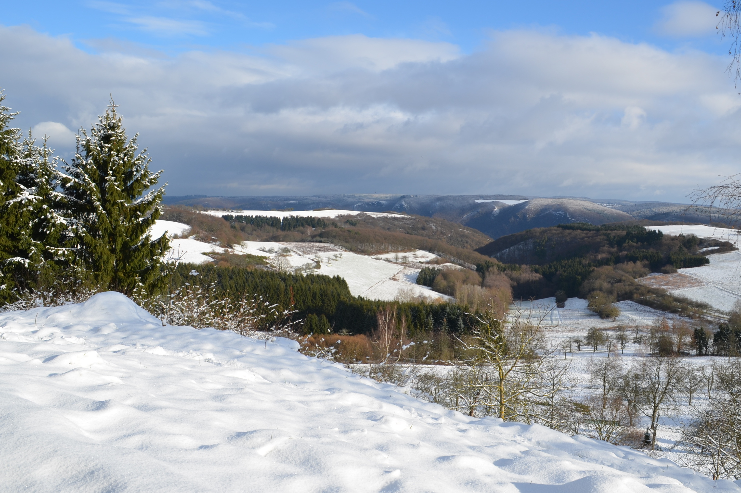 Rheinbay, winter landscape